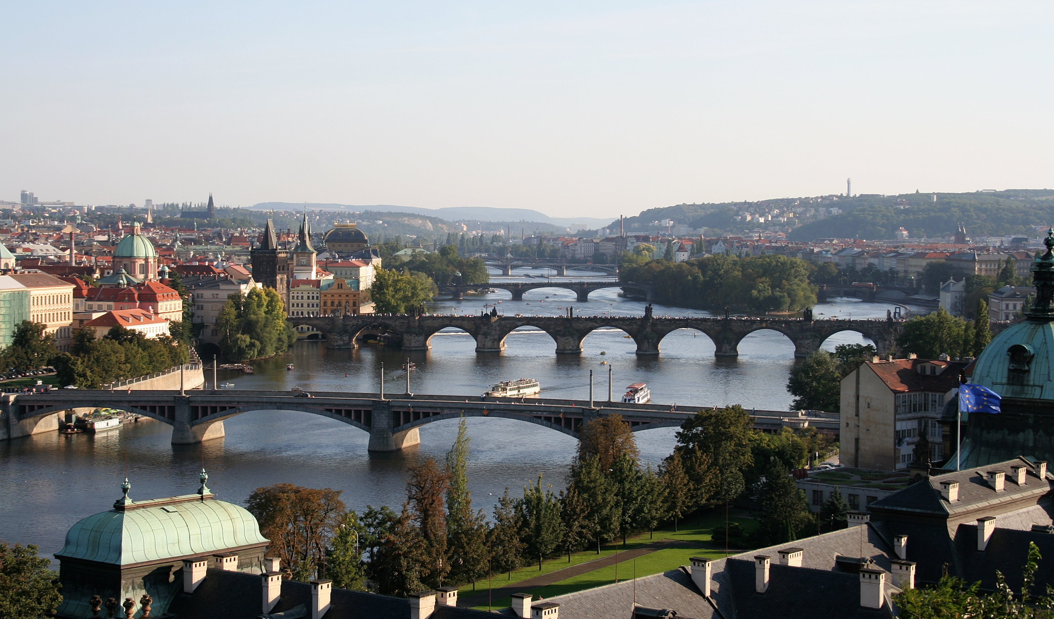 View of Vltava in the Prague city center.